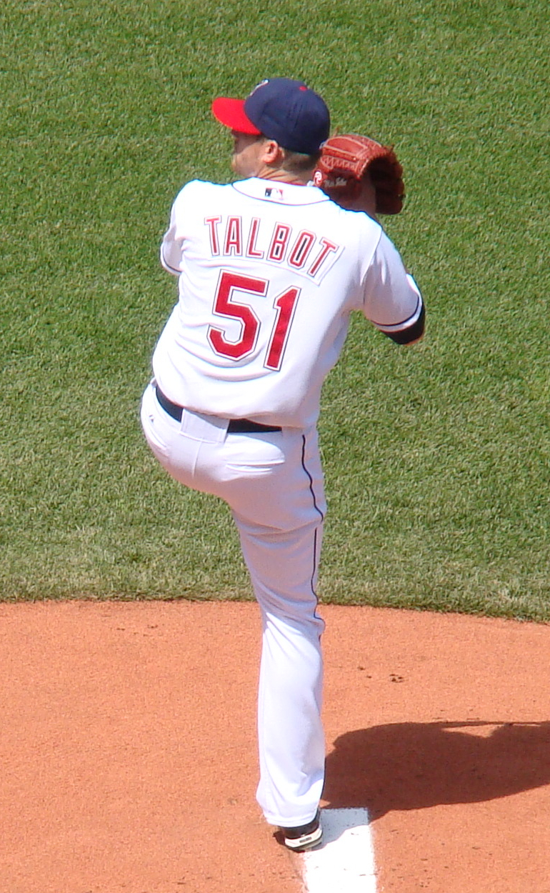 Mitch Talbot